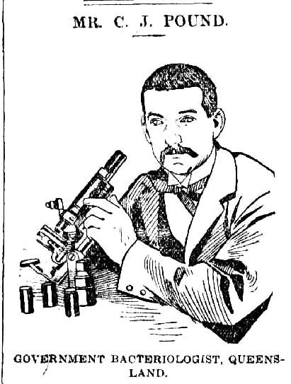 Charles Joseph Pound illustrated in his role as Government Bacteriologist, Queensland, Australia, for his visit to Sydney in 1897 to attend a dairy conference at the Hawkesbury College. See: Queensland Stock Institute. Related: C. J. Pound pictured with his microscope